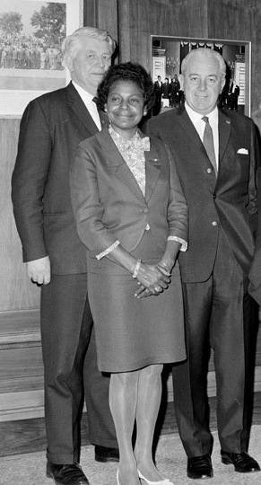 Harold Holt and two government MPs meeting with representatives of the Federal Council for the Advancement of Aborigines and Torres Strait Islanders (FCAATSI) – from left to right: Gordon Bryant, Faith Bandler, Harold Holt, Doug Nicholls, Burnum Burnum, Winnie Branson, and Bill Wentworth.